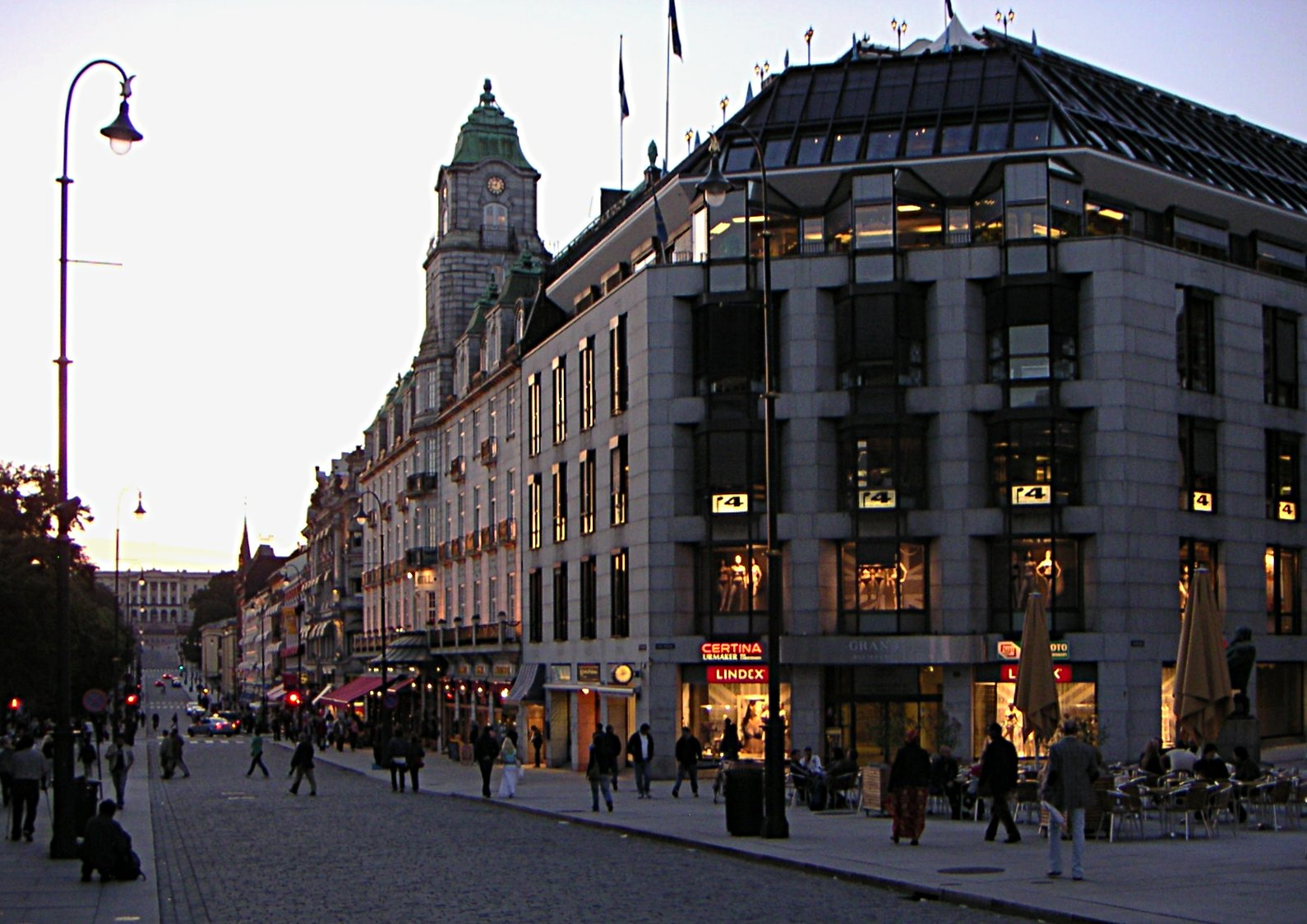 From the upper part of Karl Johan, which is actually downhill at the point, late in the evening. To the left, further up the road is The Castle, — Slottet.